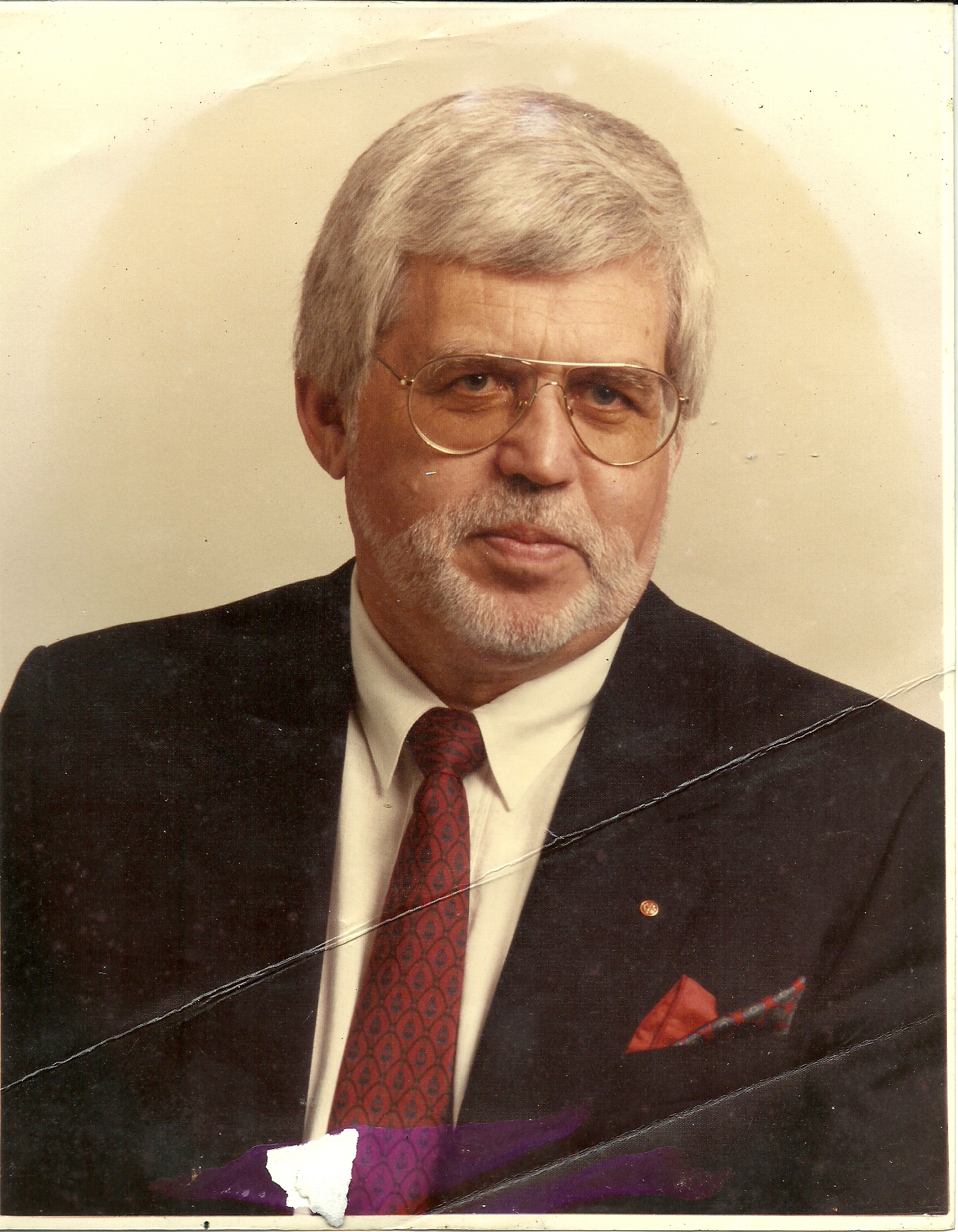 Alf Schwarz (photo)